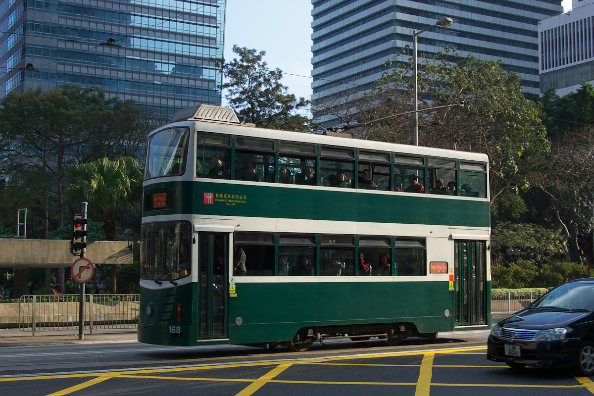 Hongkong Tram No. 168, 5th generation double deckker.